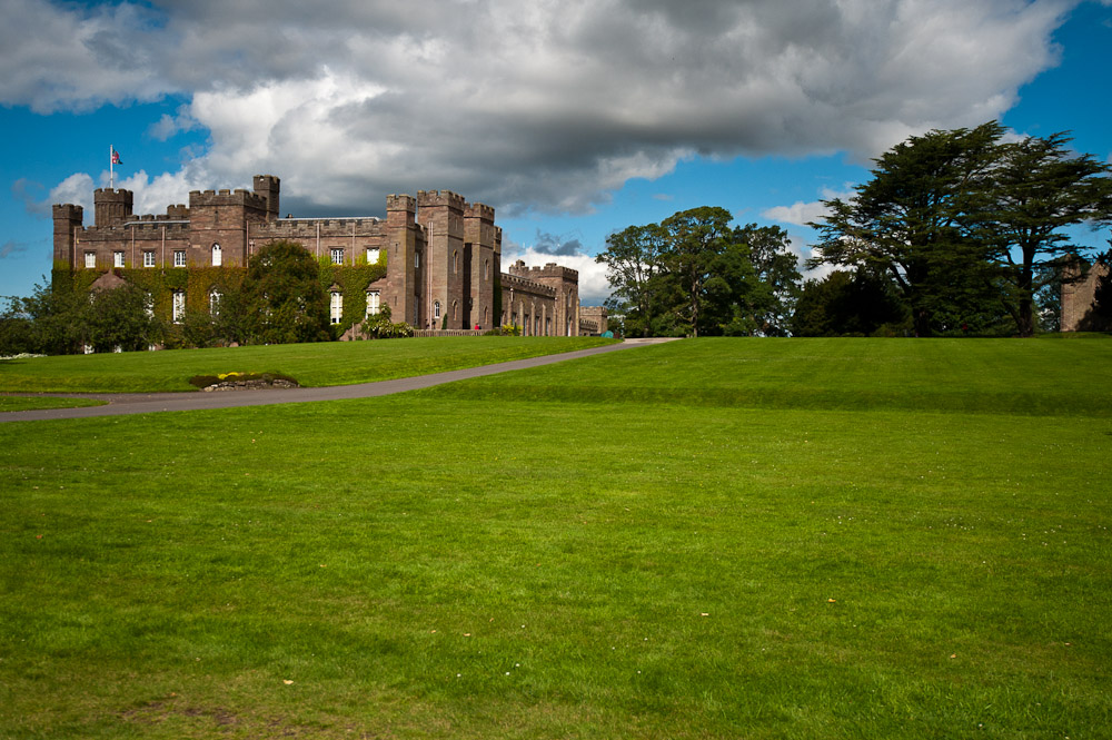 Scone, Perth, Scotland